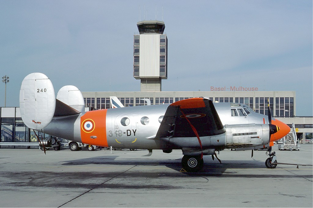 A Dassault MD 312 Flamant of the Armée de l'Air at Basel-Mulhouse Airport.